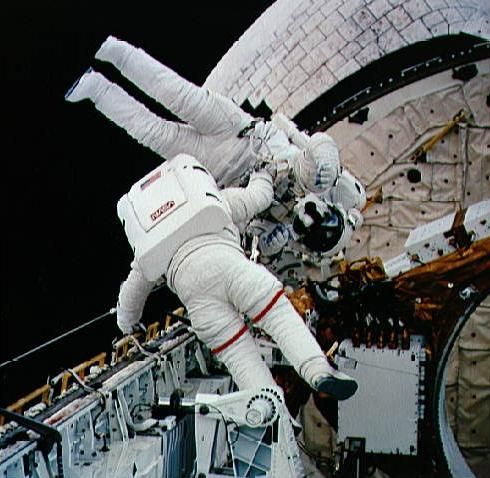 Astronauts Gregory Harbaugh and Mario Runco, Jr. during the EVA on STS-54. STS-54 Mission Specialist (MS2) and extravehicular crewmember 1 (EV1) Gregory J. Harbaugh, wearing extravehicular mobility unit (EMU) (red stripes), carries EMU-suited MS1 and EV2 Mario Runco, Jr along Endeavour's, Orbiter Vehicle (OV) 105's, payload bay (PLB) starboard sill longeron during Detailed Test Objective (DTO) 1210, extravehicular activity (EVA) operations procedure/training. Harbaugh uses Runco's EMU mini-workstation as a handhold. The objective of this exercise is to simulate carrying a large object. It will also evaluate the ability of an astronaut to move about it space with a "bulky" object in hand. The empty airborne support equipment (ASE) frames appear below the crewmembers and the PLB aft bulkhead behind them. This EVA is the first in a series to broaden EVA procedures and training experience bases and proficiency in preparation for future EVAs such as the Hubble Space Telescope (HST) and Space Station Freedom (SSF).